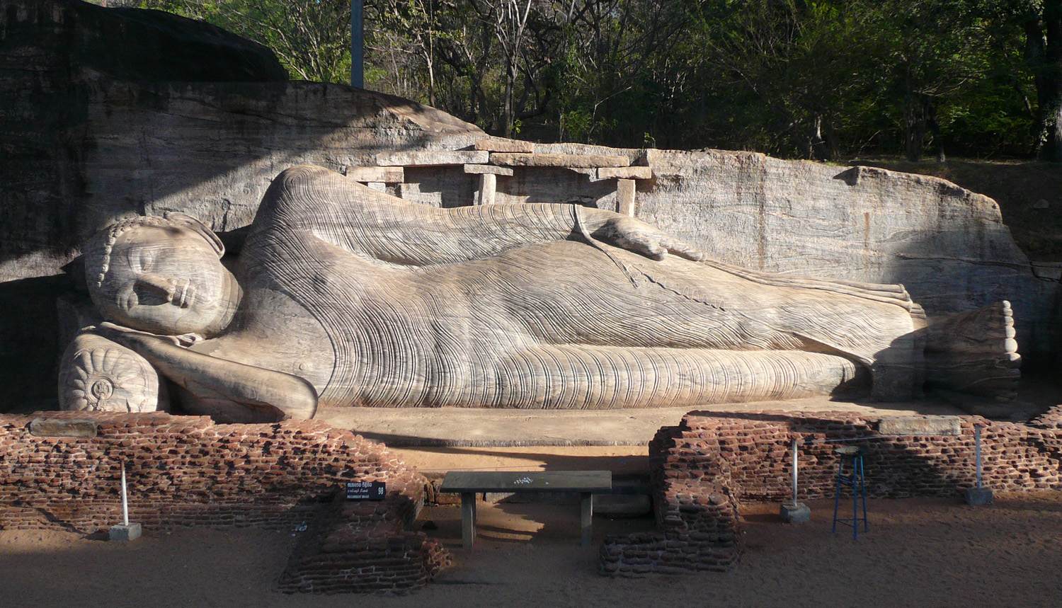 Reclining Buddha in Gal Vihara, Polonnaruwa. The picture is taken at a time when the shadow of the roof has not yet touched the image.